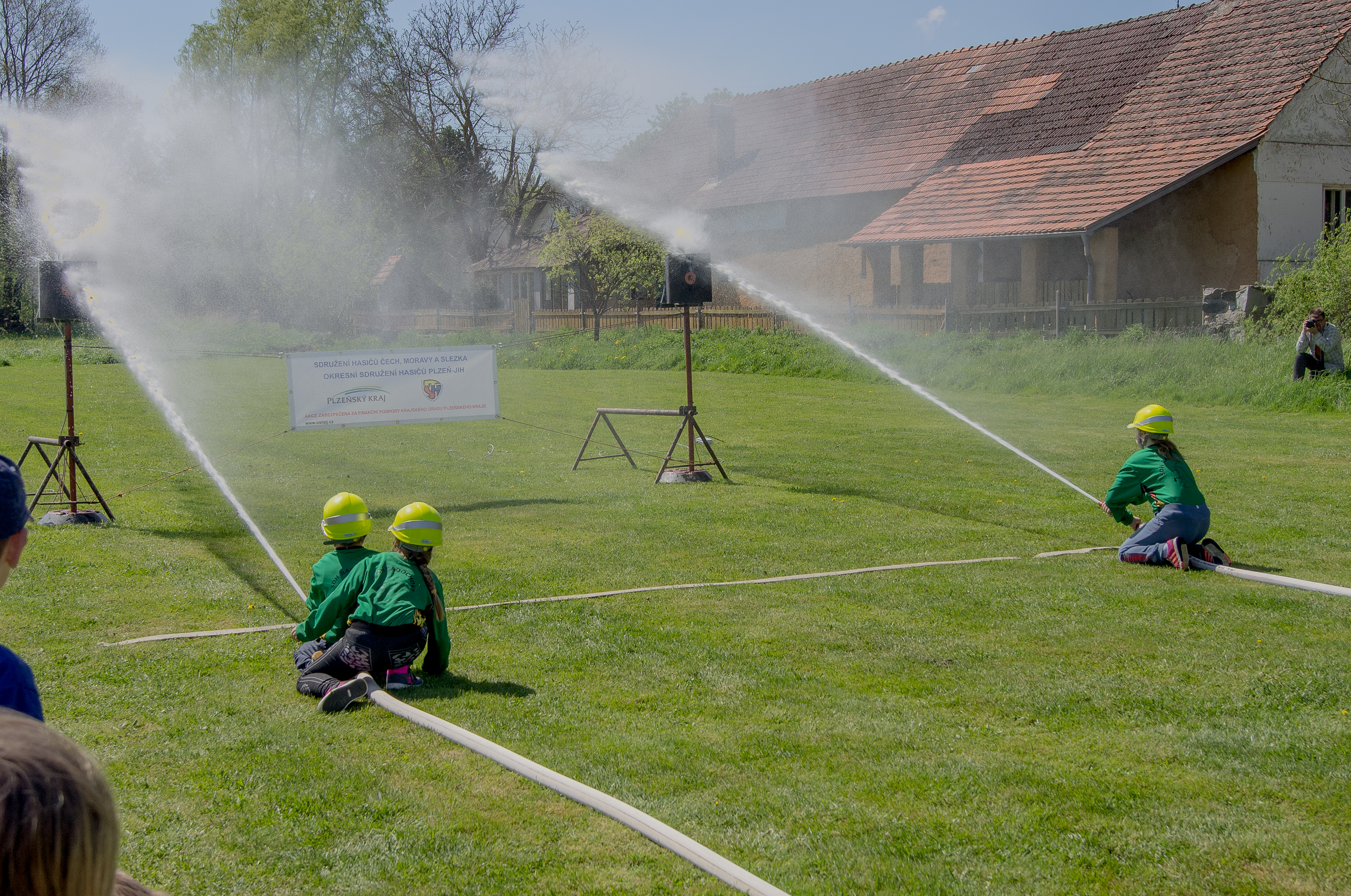 Hasičská soutěž Chouzovský rybník